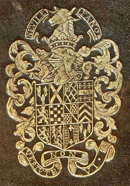 Stamped Arms, gold on leather, of Sir Francis Fane (c.1611-1681?), K.B.: Quarterly of twelve, 1st. & 12th. Three dexter gauntlets affronty (Fane); 2nd. a saltire a rose for difference (Nevill of Raby); 3rd. Fretty on a canton per pale a ship (Nevill of Bulmer); 4th. A fess or between six cross crosslets (Beauchamp); 5th. A lion rampant (FitzAlan); 6th. Checky (Warenne [Warren); 7th. Quarterly in the second and third quarters a fret a bend overall (Le Despencer); 8th. Three chevrons (Clare); 9th. A lion rampant double queued (Burghersh); 10th. Three lions rampant (Mildmay); 11th. Two crosses patty in pale between as many flaunches checky (Sherington). A crescent for difference. Crest: Out of a ducal coronet a bull's head charged on the neck with a rose. Other information Stamped arms, gold on leather, of Sir Francis Fane (1611-1681), K.B. Stamp found on the cover of all of the following books, those once belonging to Francis Fane: Fitzherbert, Thomas. Second part of a treatise concerning policy, and religion, Douai, 1610. Norgate, Edward. Exact and compendious discourse concerning the arte of miniature or limning. Selden, John. Titles of honor, London, 1631. Silhon, sieur de (Jean). Minister of state, London, 1658. Wotton, Henry, Sir. Reliquiæ Wottonianæ, London, 1651.